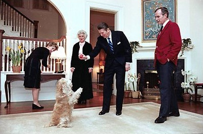 Then President Ronald Reagan and Nancy Reagan spend an evening with then Vice President George H.W. Bush, Barbara Bush and their dog C. Fred at the Naval Observatory Feb 12, 1981.